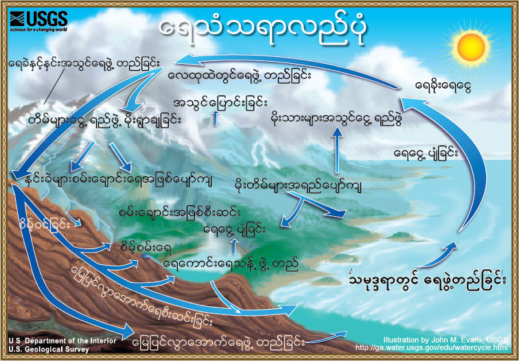 Water-Cycle Diagram (Burmese) မြန်မာဘာသာ: ရေသံသရာလည်ပုံ သရုပ်ပြပုံ (မြန်မာဘာသာ)